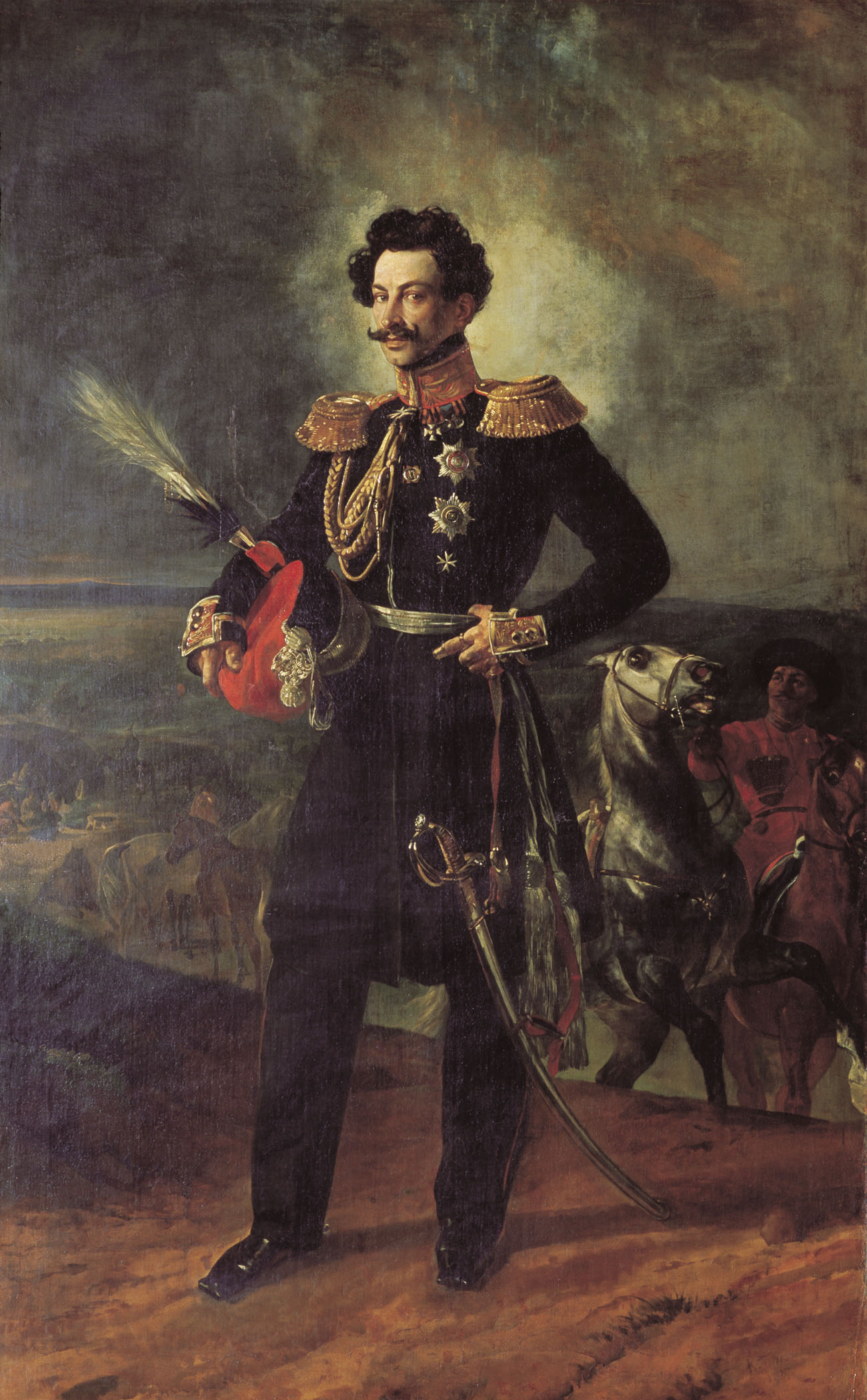 Portrait of General-Adjutant Count Vasily Alekseevich Perovsky, 1837. Oil on canvas. 247 х 155 cm. The State Tretyakov Gallery, Moscow, Russia